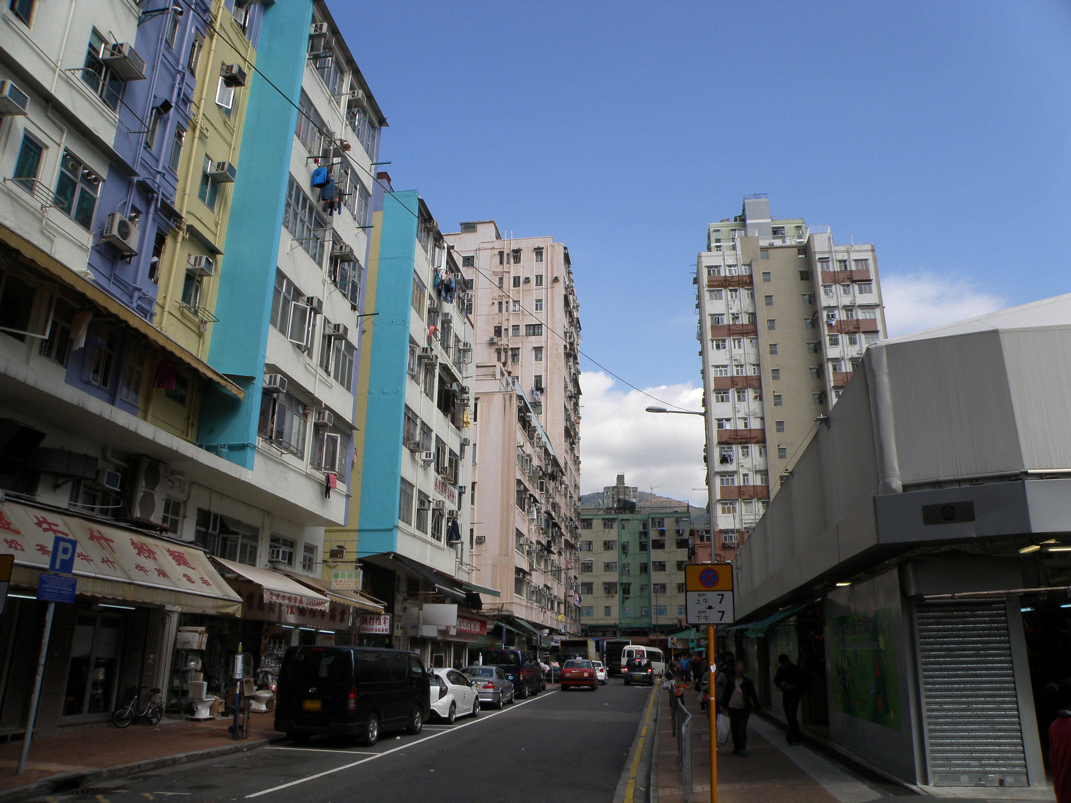 Hau Tei Square in Tsuen Wan, Hong Kong.